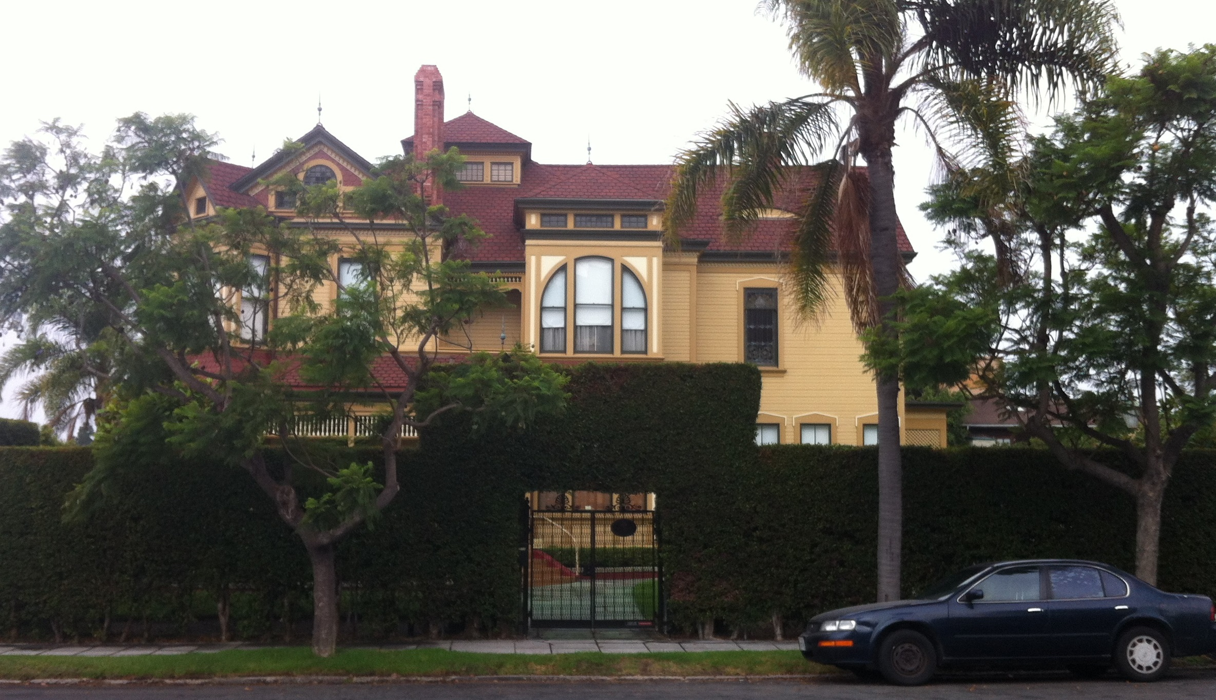 1988 Queen Anne Victorian house in San Diego, California, USA